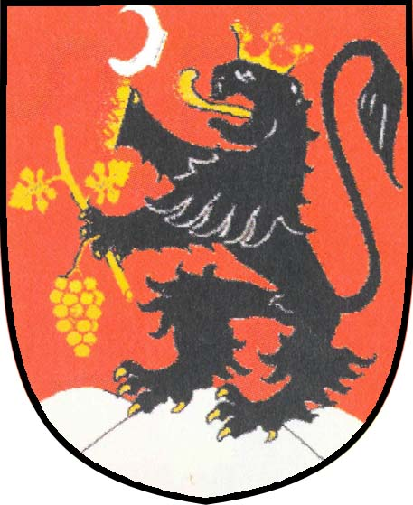 Municipal coat of arms of Radějov village, Hodonín District, Czech Republic.